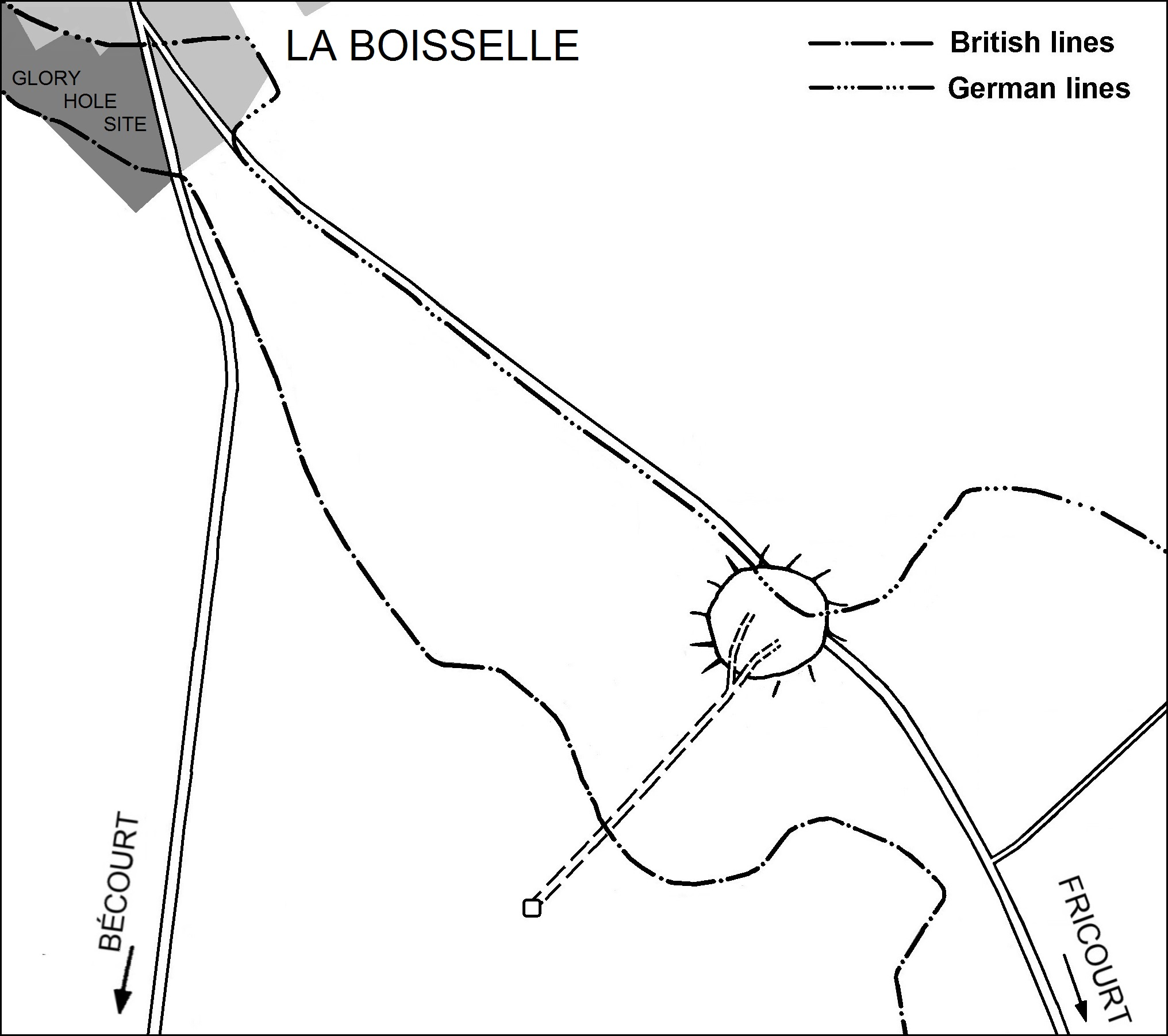 Plan of the Lochnagar mine at La Boisselle, fired by the British at the start of the Battle of the Somme 1916